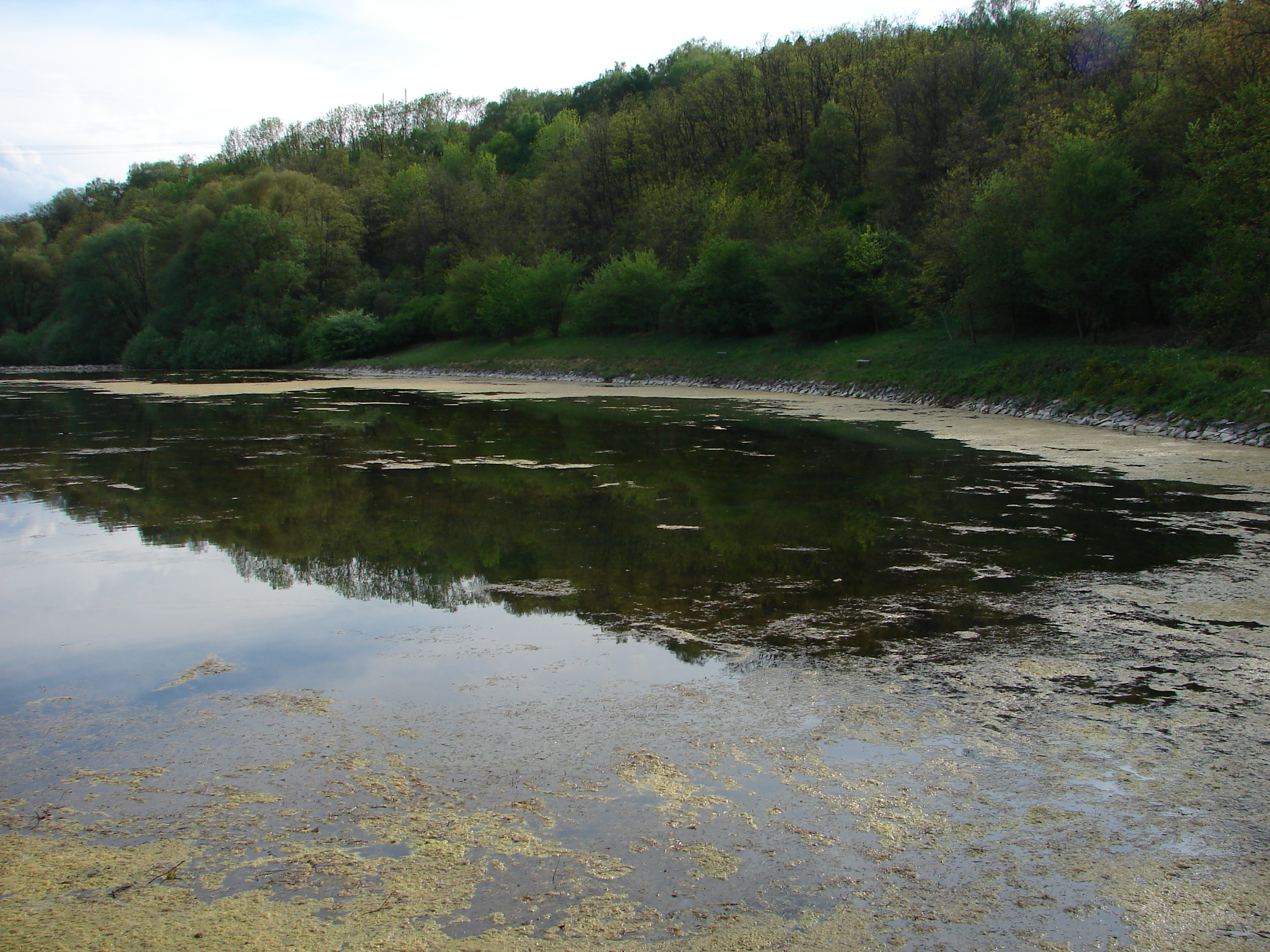 Natural monument Jalový dvůr in Vyškov District, Czech Republic.